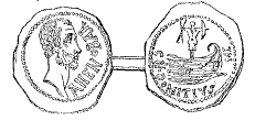 Coin with Gnaeus Domitius Ahenobarbus (consul 32 BC) on the obverse and a representation of his defeat of Domitius Calvinus at Philippi on the obverse.